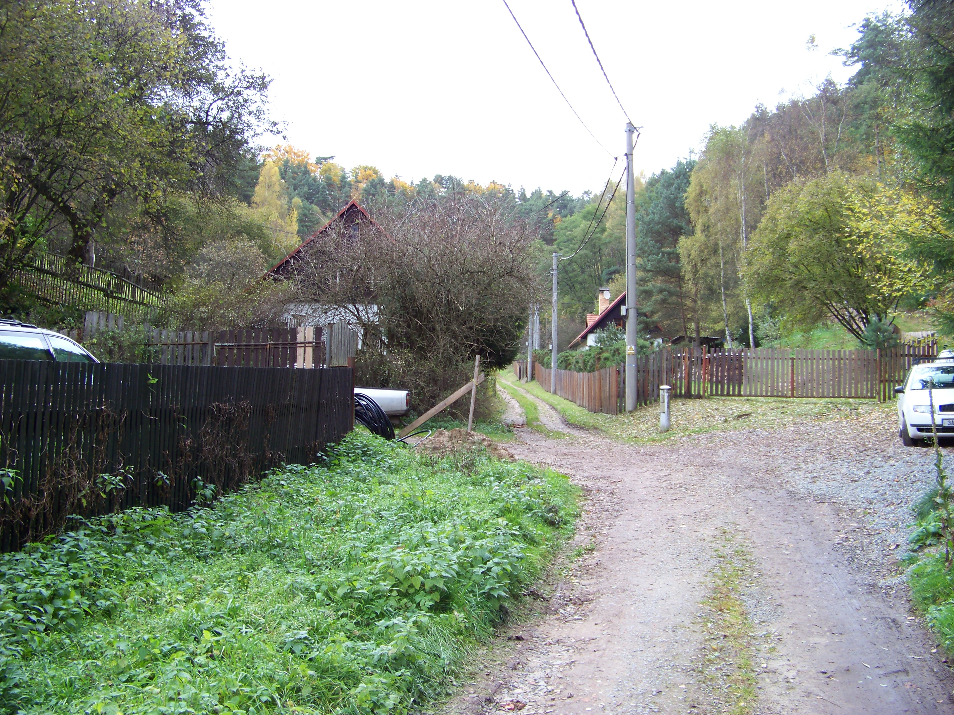 Mšeno-Brusné 2.díl and Nosálov-Brusné 1.díl, Mělník District, Central Bohemian Region, the Czech Republic. Houses No 10 and 2.